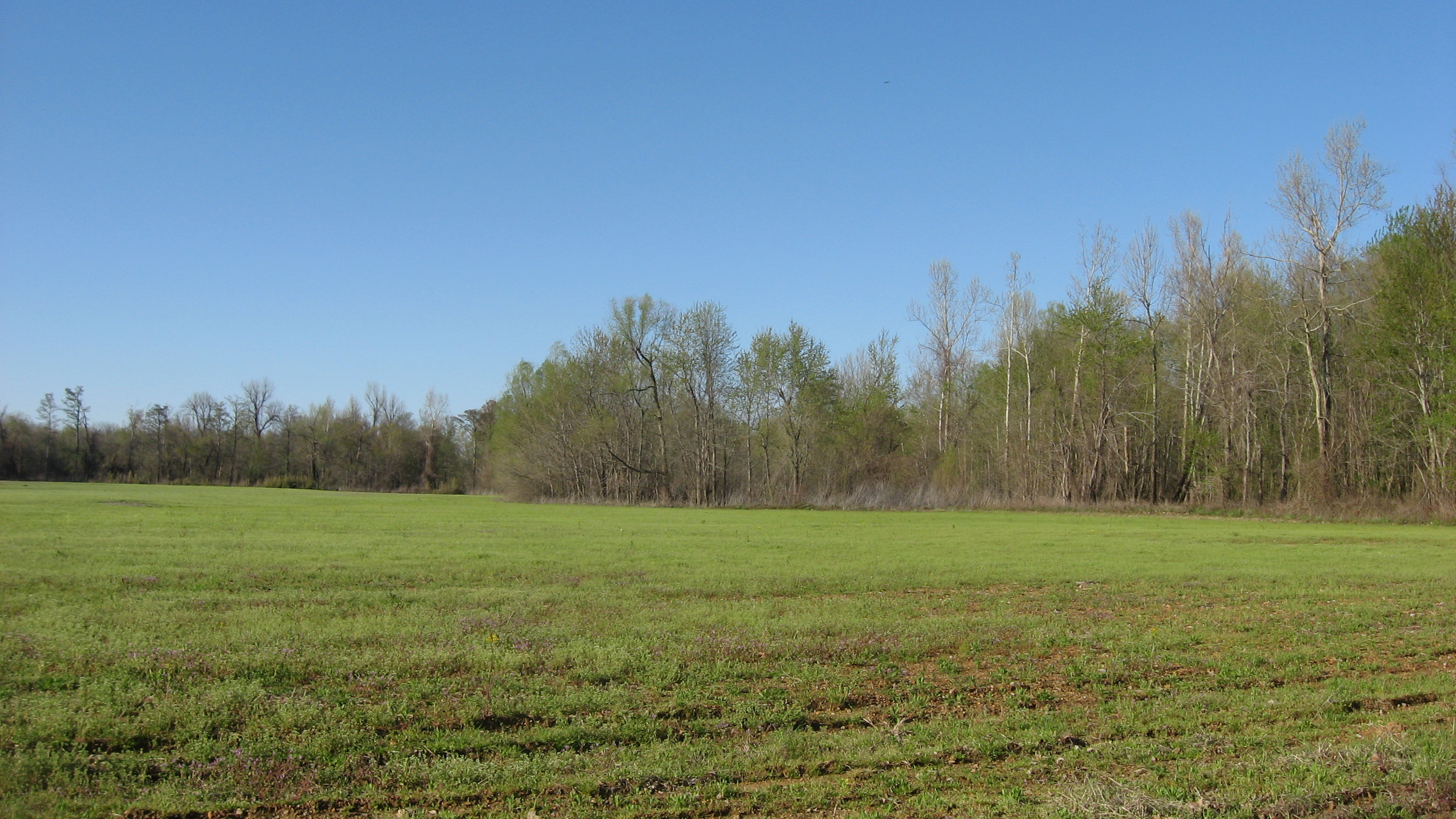 Looking northeastward from County Road 1308 toward the Marshall Site, west of Bardwell in Carlisle County, Kentucky, United States. As an important archaeological site, Marshall is listed on the National Register of Historic Places.